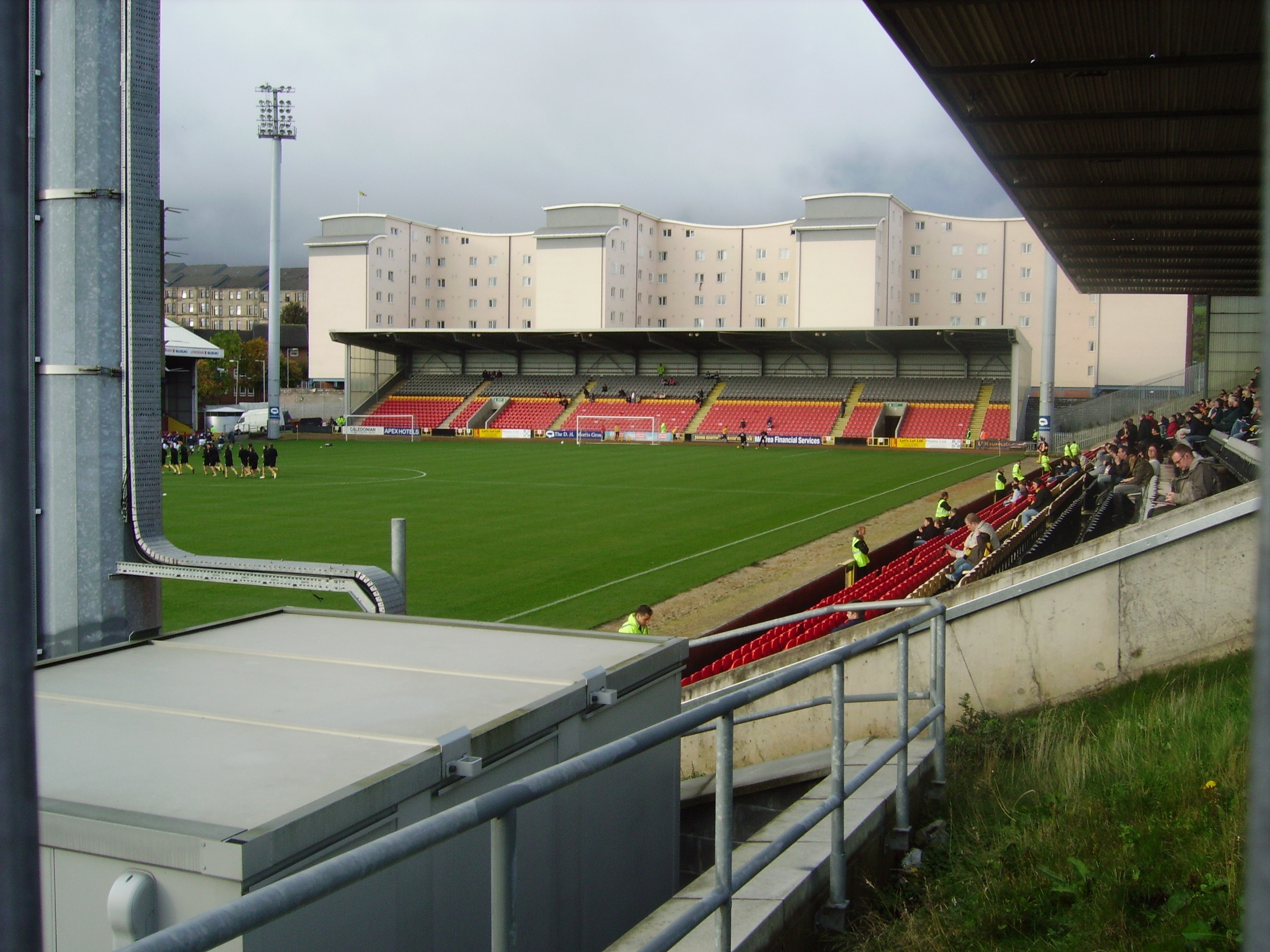 my own pic of Firhill